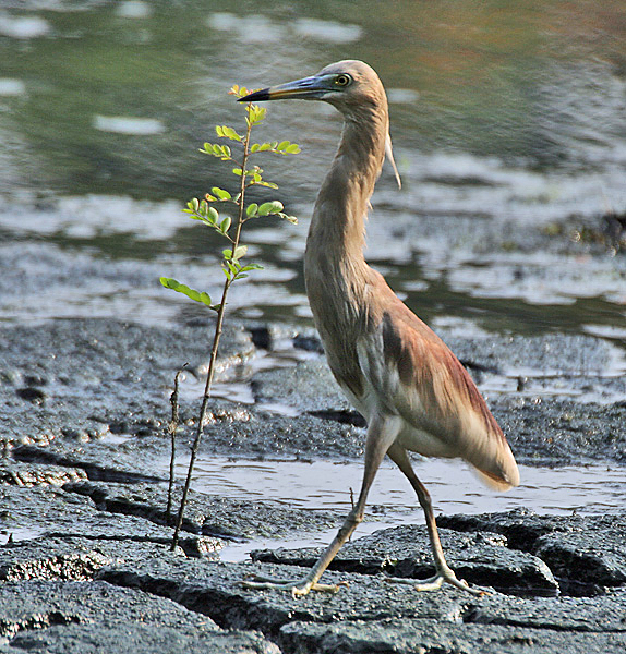 Indian Pond Heron Ardeola grayii in Kolkata, West Bengal, India.